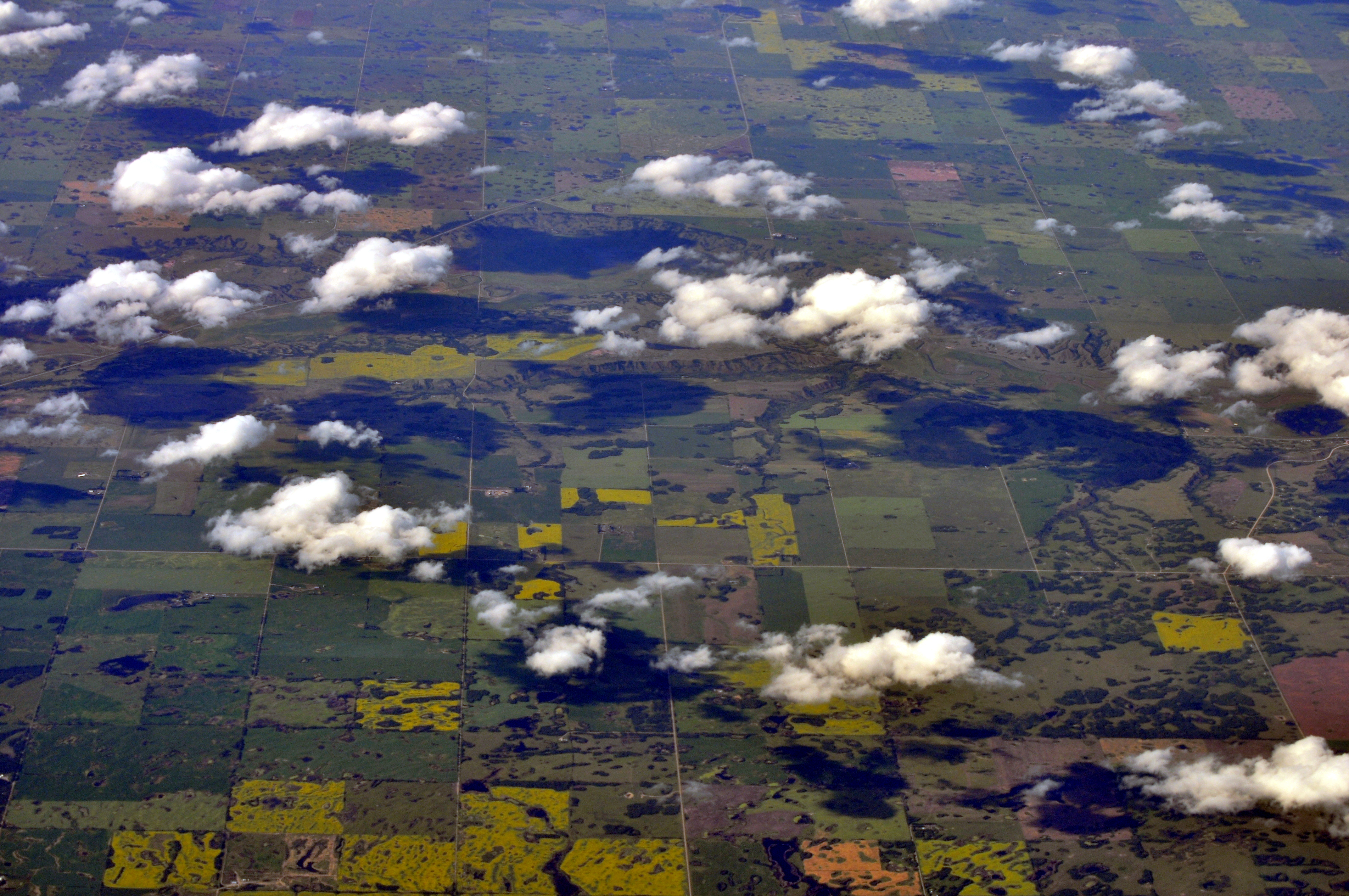 Aerial view of Saskatchewan Highway 6, 15 km northeast of Craven, Saskatchewan, Canada. View is from the south.